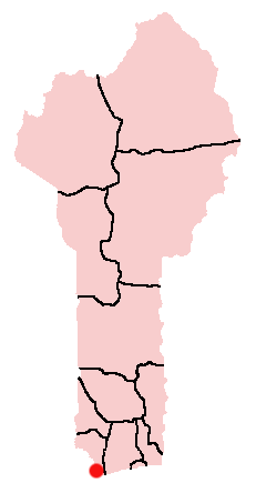 Grand Popo, Benin Location Map; created with the GIMP. Made by User:Acntx.